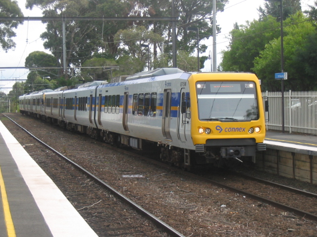 X'Trapolis 100 train. X'Trapolis 100 train operated by Connex Melbourne, the previous operator.